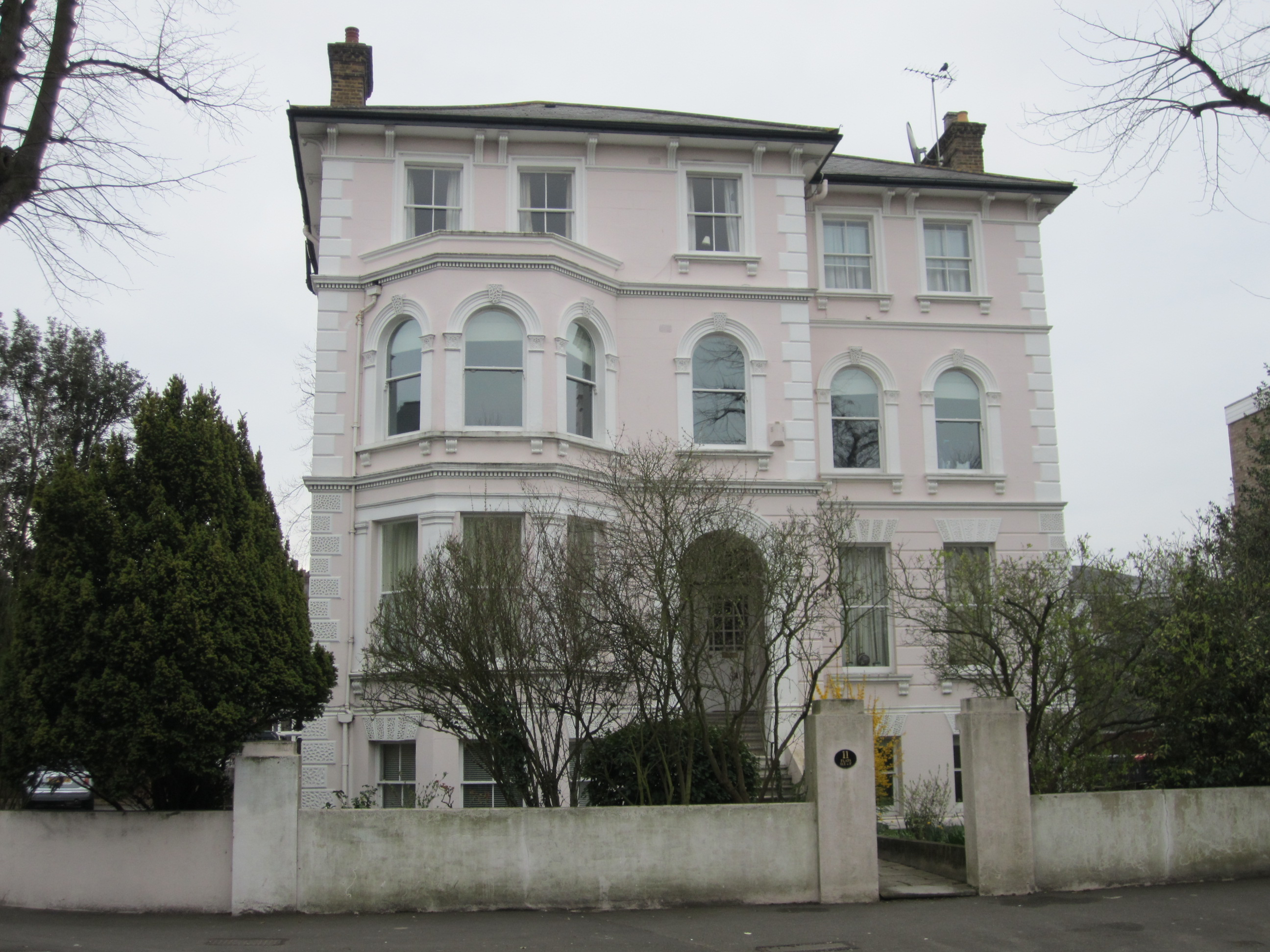 No 11 Palace Road Kingston, the last of eleven similar houses.